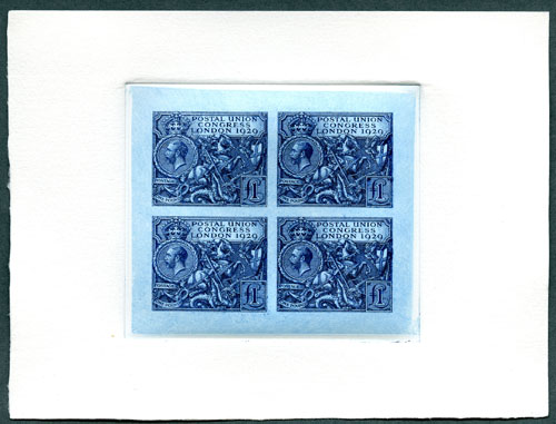 2010 facsimile of a 1929 stamp which is out of copyright.